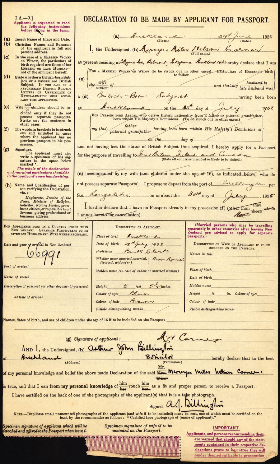 Archives New Zealand Reference: ACGO 8333 IA1 1350 / 15/11/59182